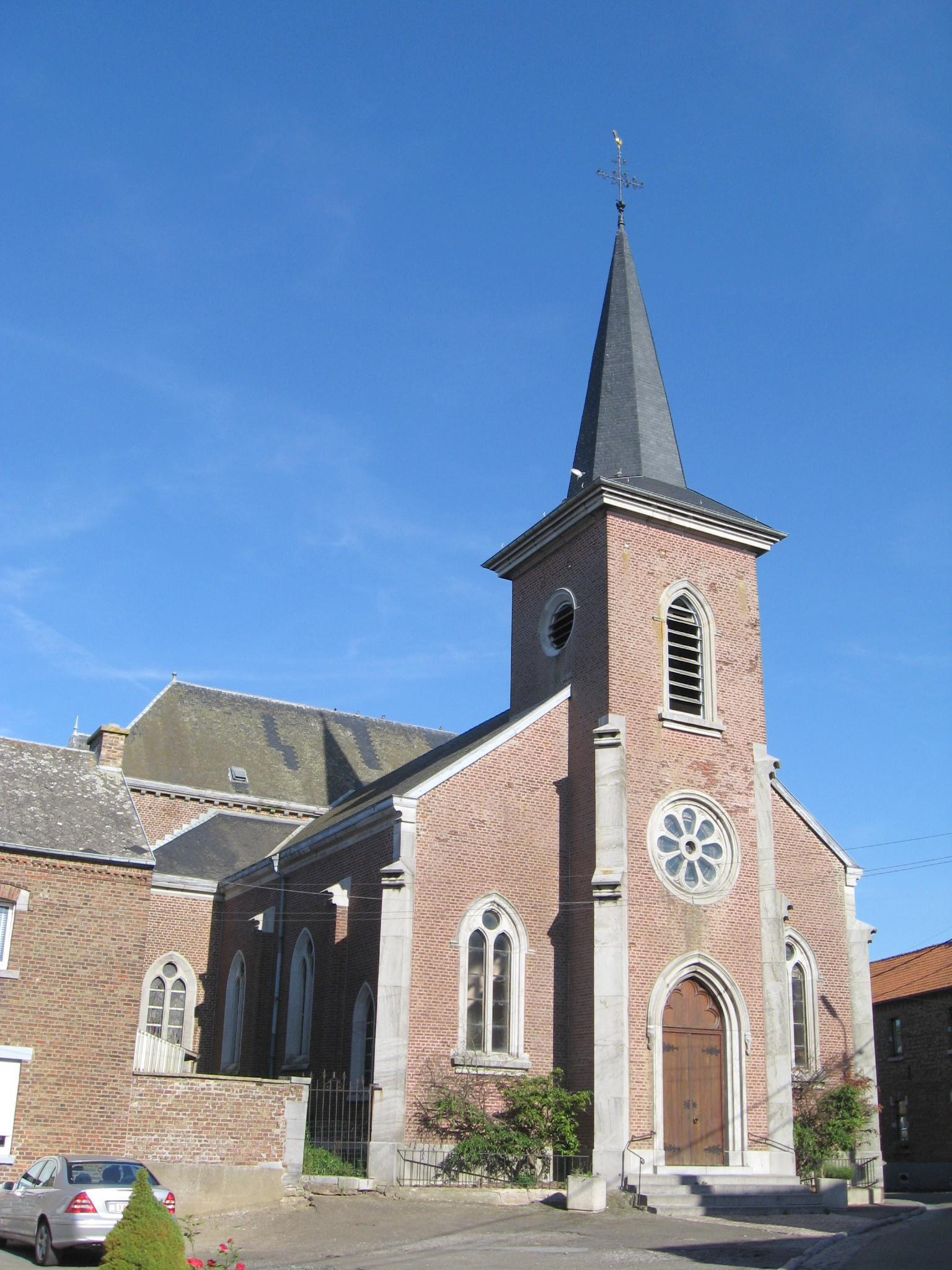 Church of Saint Maurice in Ciplet, Braives, Liège, Belgium